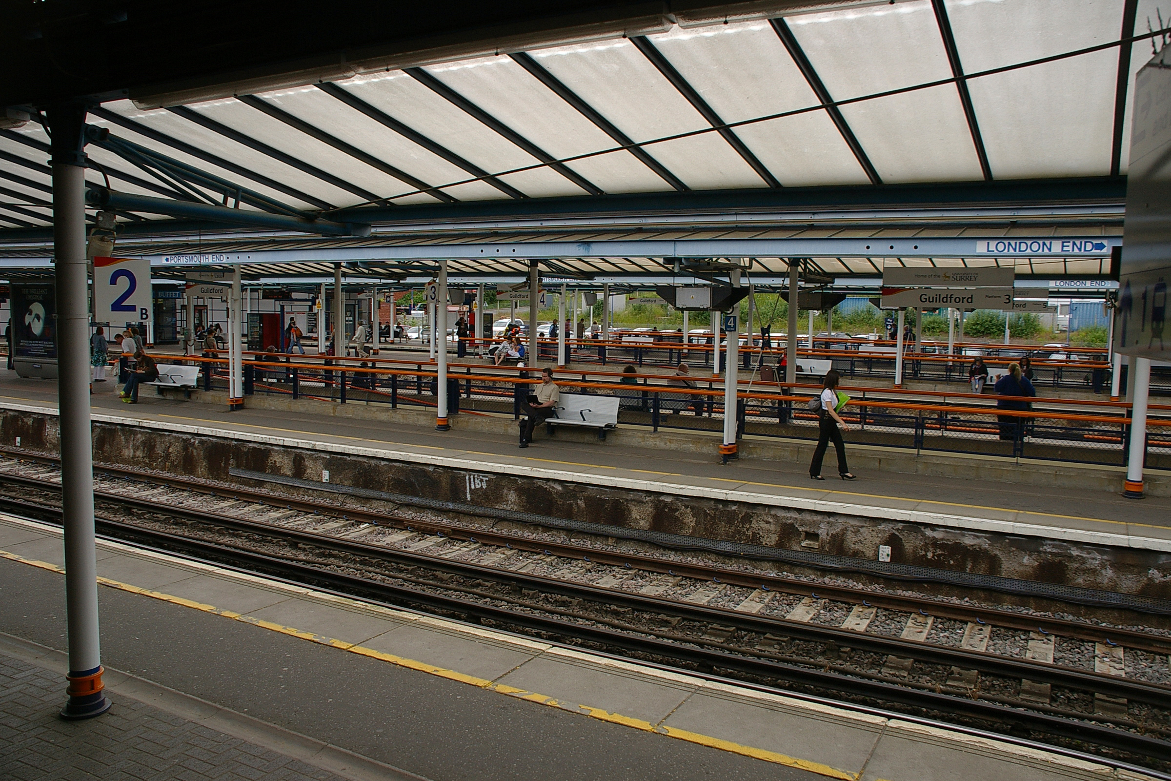 Guildford railway station, looking west through the platforms.